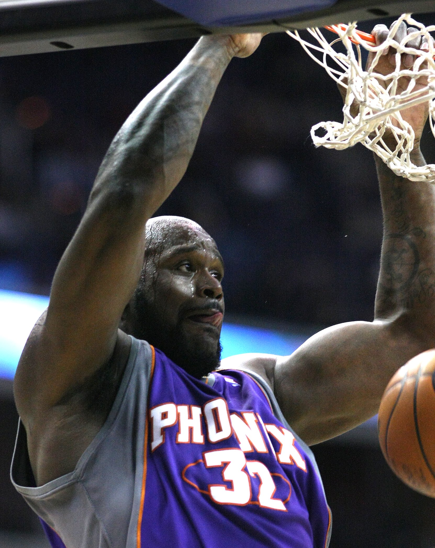 Shaquille O'Neal of the Phoenix Suns